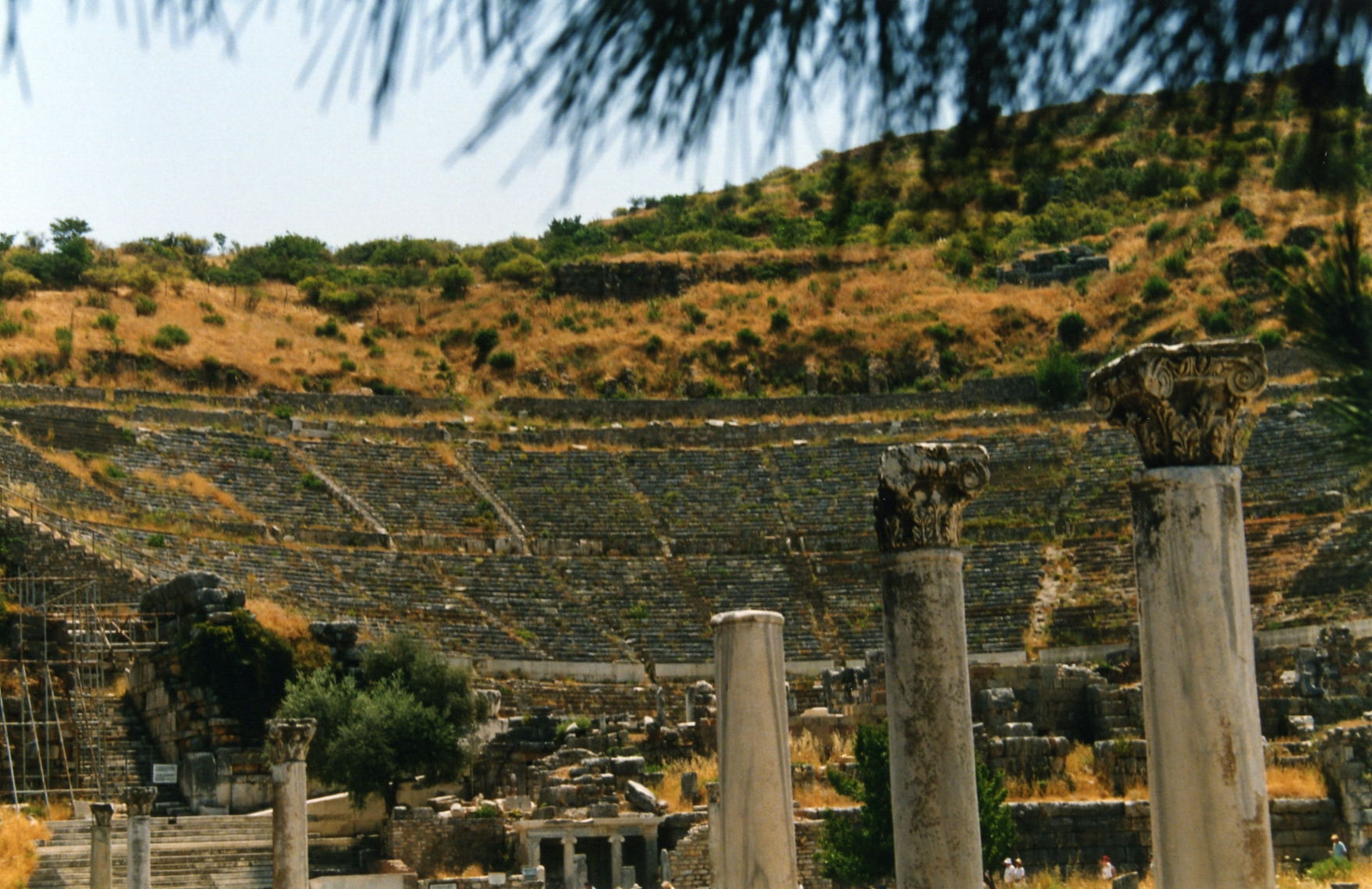 Ephesus, Turkey: the ancient theatre.